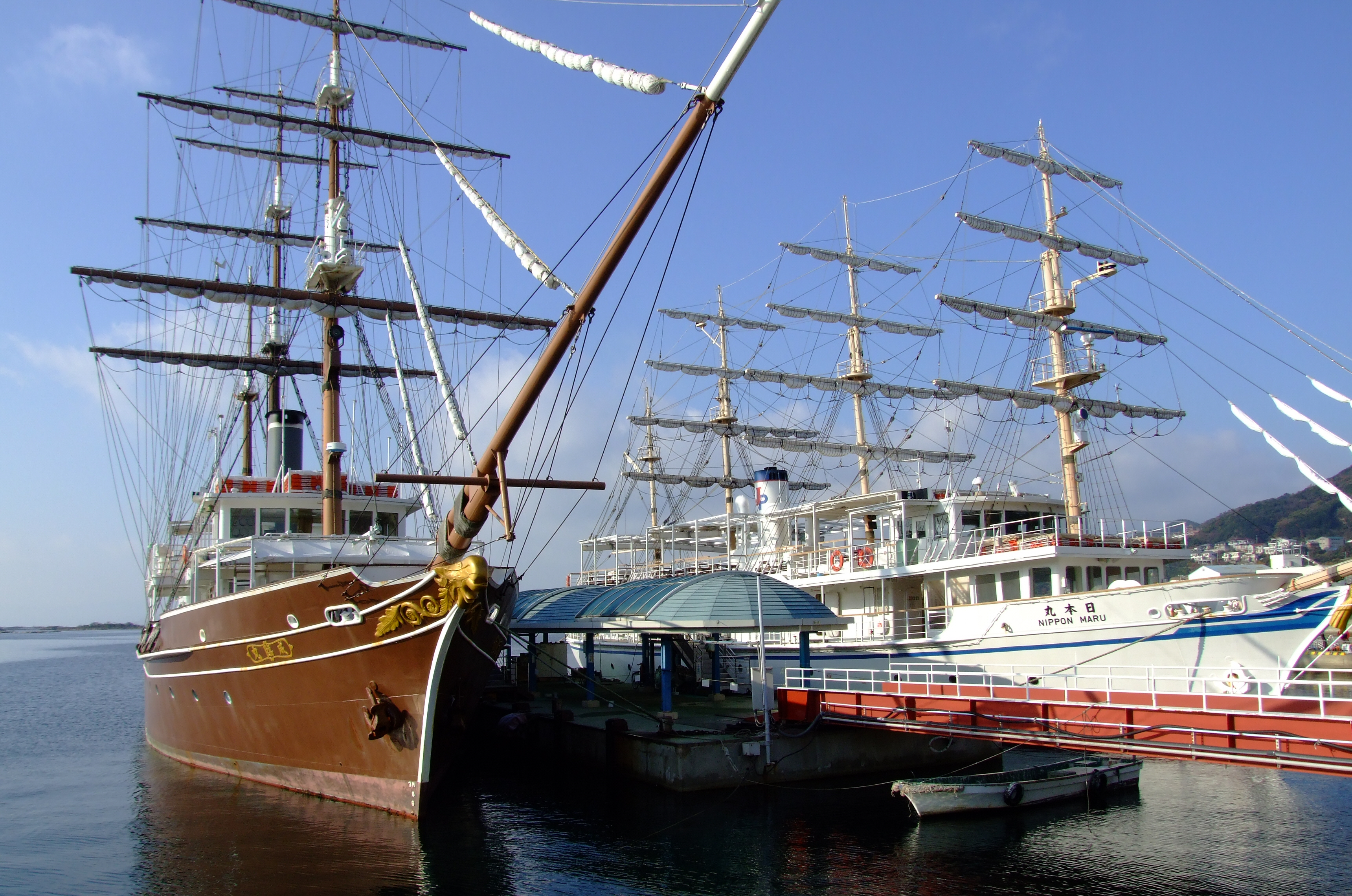 Fukura port in Awaji-shima(island), Japan. Sight-seeing boats.